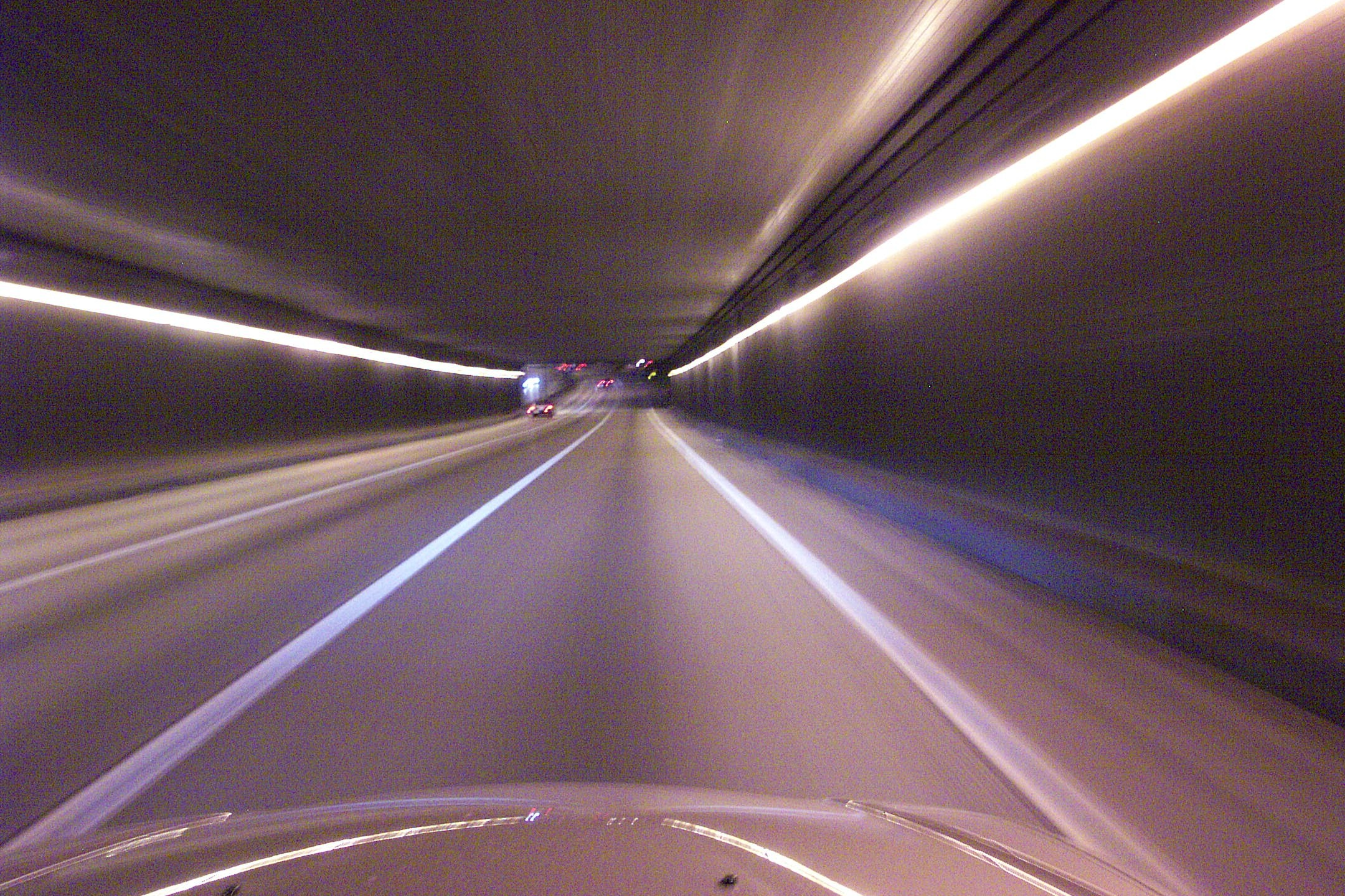 I took this picture on September 18th, 2005